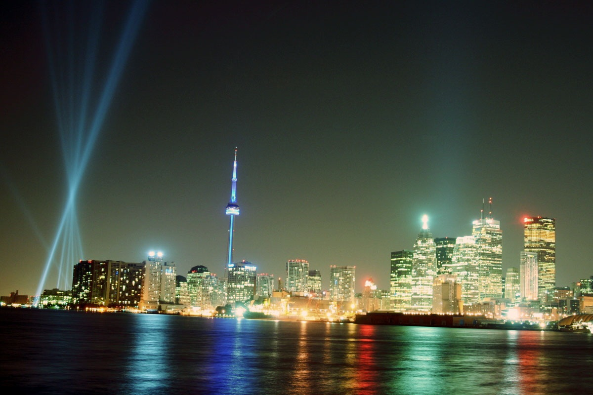 Skyline of Toronto, with Luminato light show